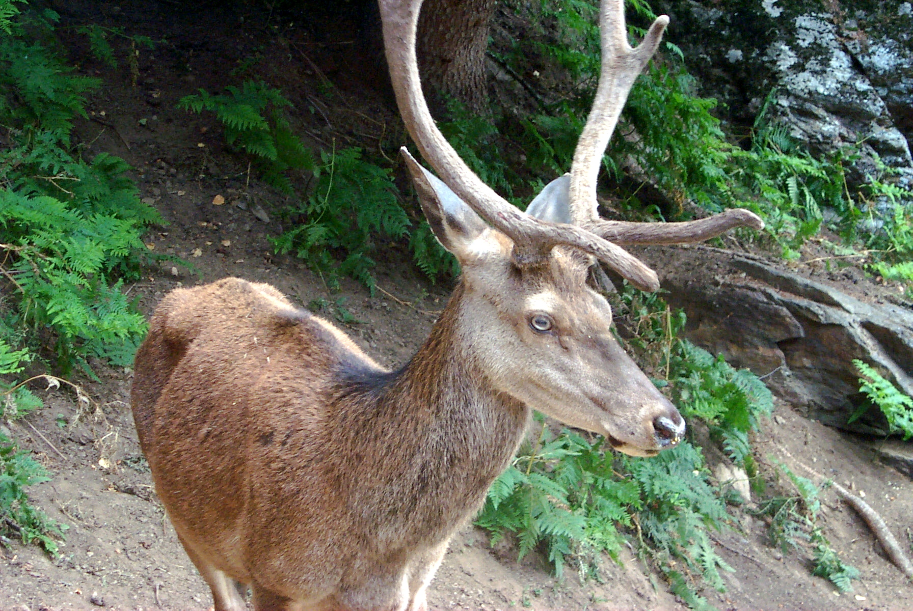 Cervus elaphus. made by me